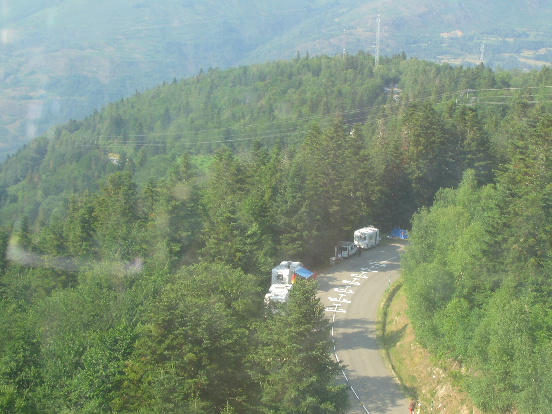 Ax 3 Domaines climb.